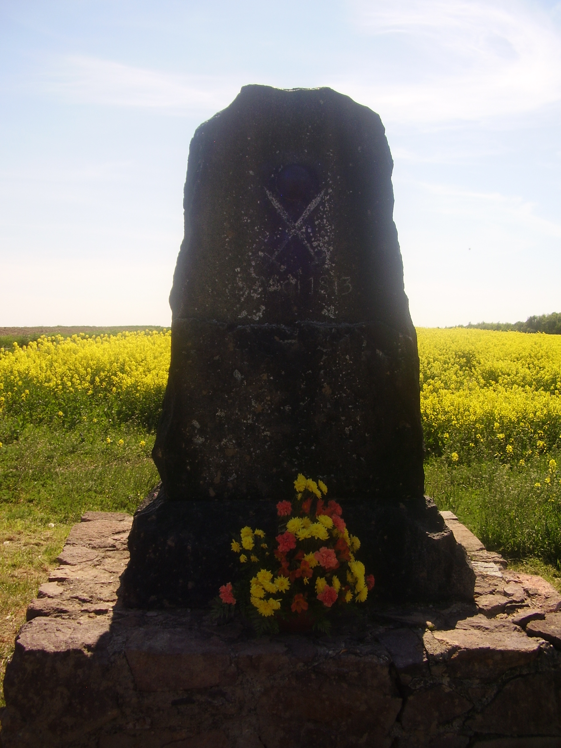 Memorialstone from battle of Gersdorf.Build 1913 whit a cannonball and date 5.Mai 1813.